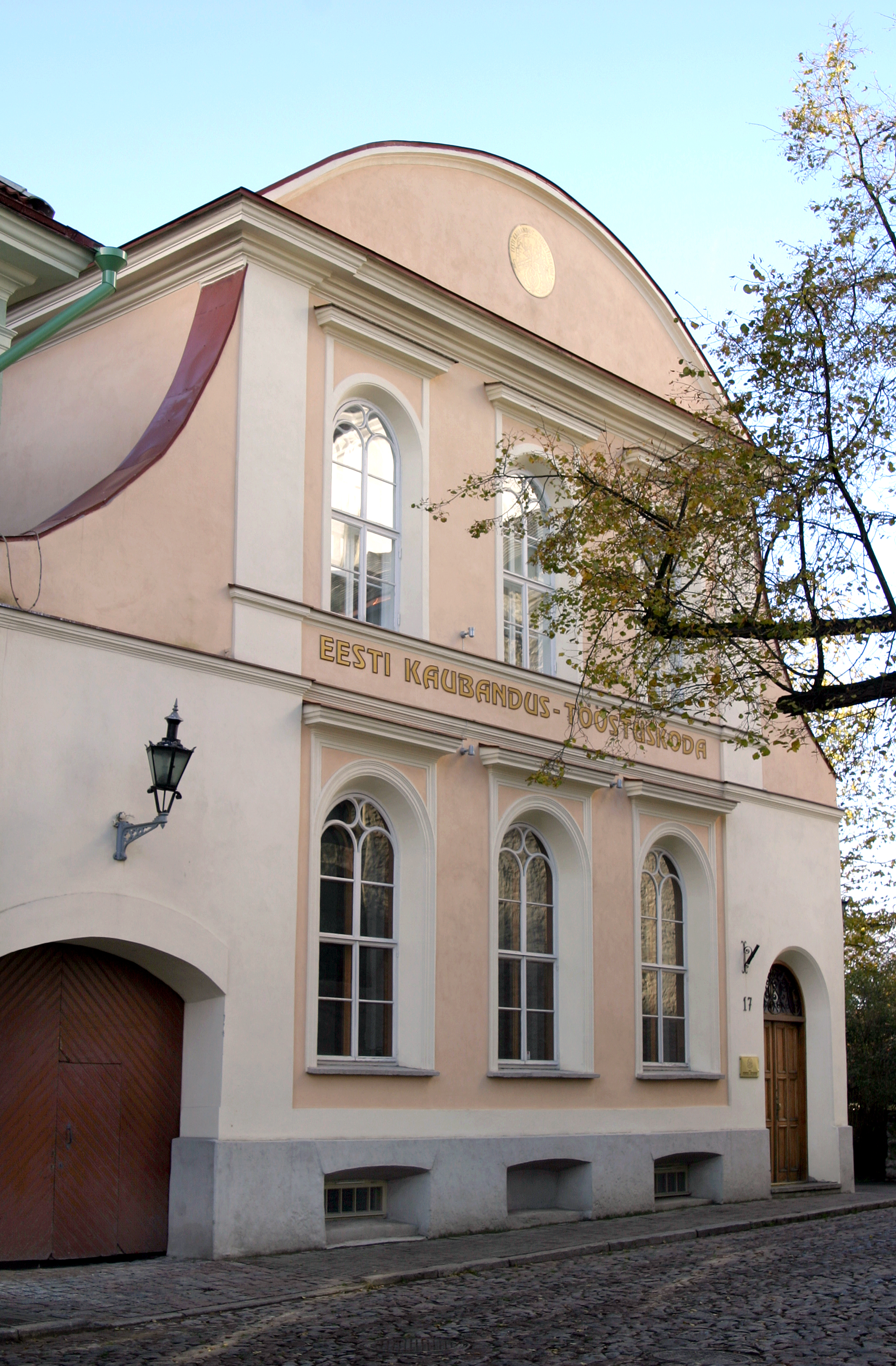 Estonian Chamber of Commerce and Industry